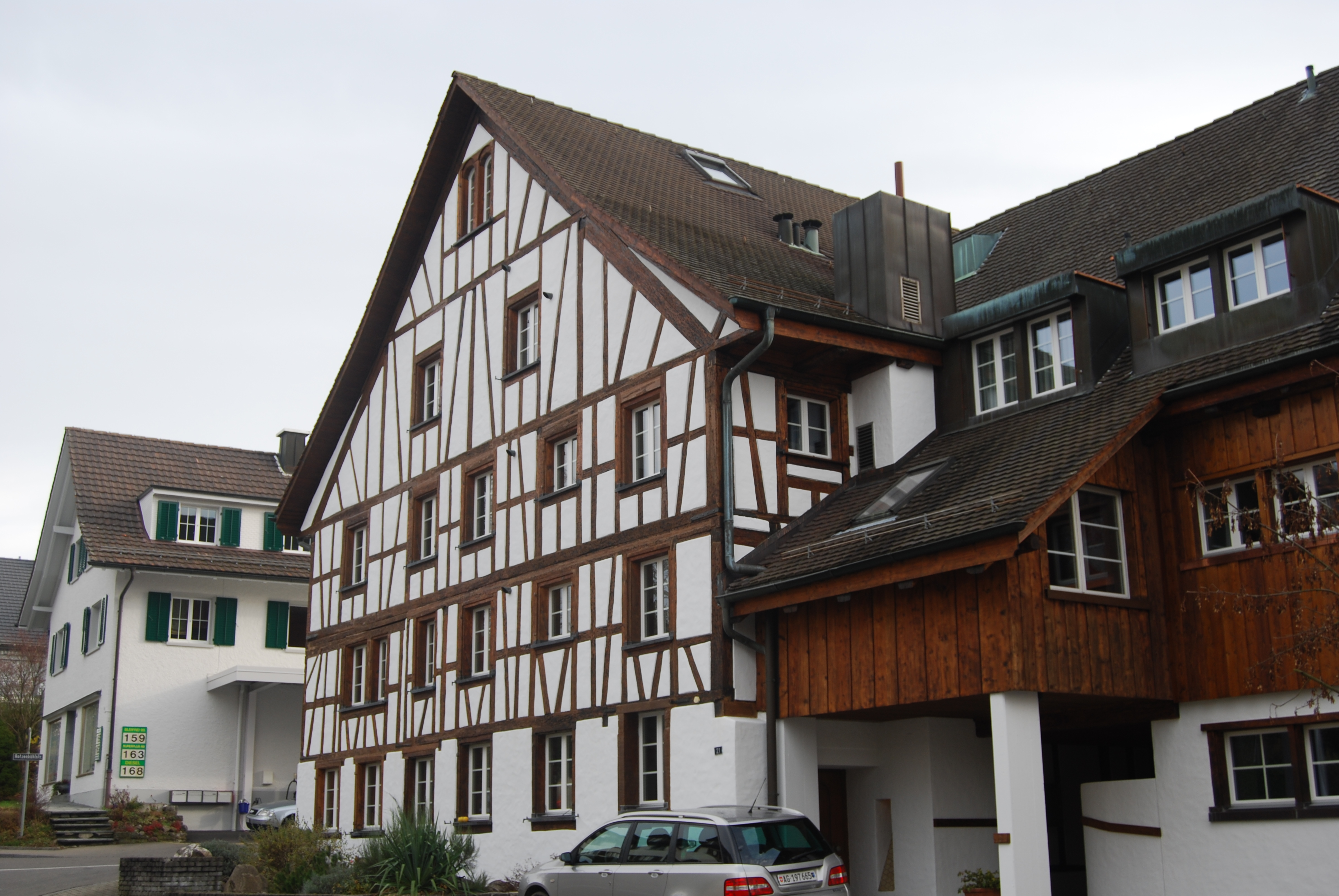 Timber framining house at Oberwil, municipality of Oberwil-Lieli, canton of Aargau, SwitzerlandEsperanto: Faktrabdomo en Oberwil, komunumo Oberwil-Lieli, Kantono Argovio, Svislando